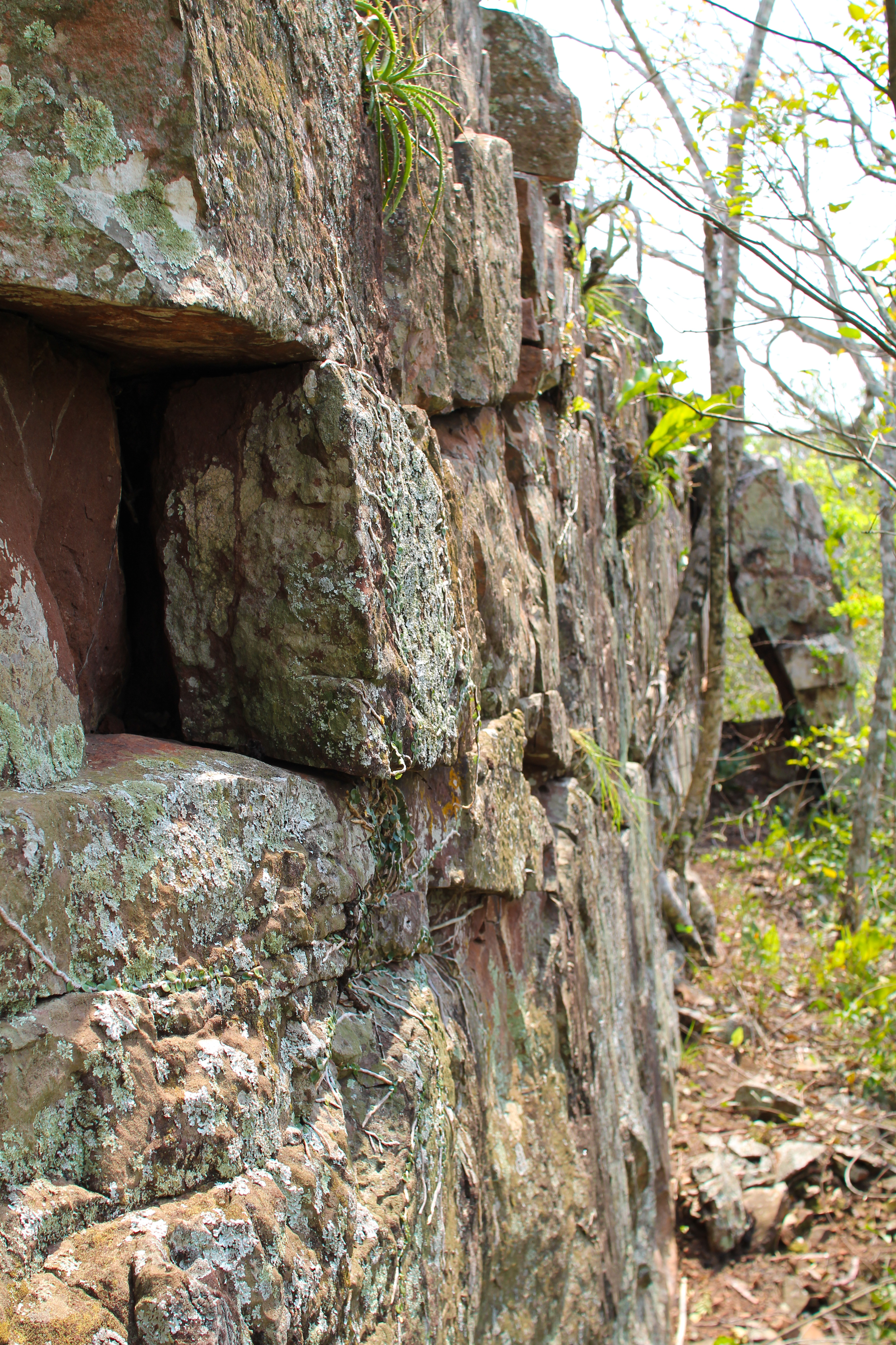 Cerro Muralla resembles a man made wall.